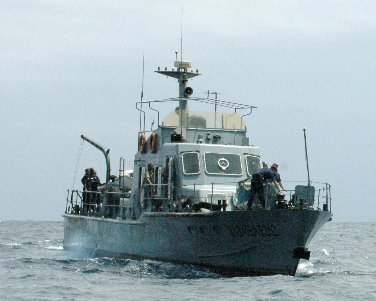 U.S. Coast Guard ship Legare (WMEC 912), right, and the Cape Verdian coast guard ship Tainha (P 262) transit together during a visit, board, search and seizure drill off the coast of Midelo, Cape Verde, April 4, 2007. Legare is on a four-month deployment to Africa to assist with maritime familiarization with the African and Portuguese navy and coast guards.